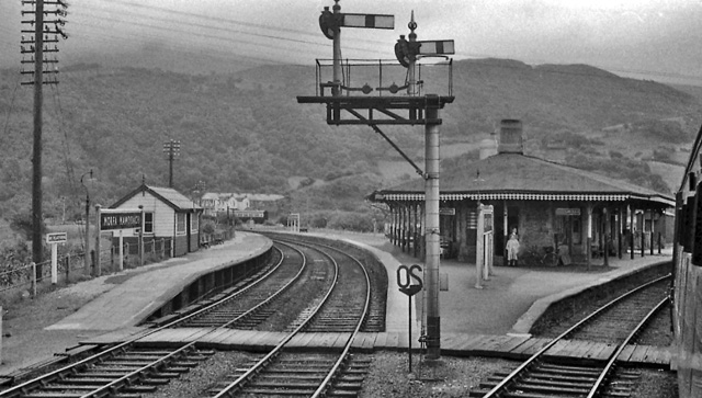 Morfa Mawddach Station. View southward, towards Dolgellau and Ruabon (left), Dovey Junction and Machynlleth (right); ex-Cambrian, Machynlleth - Pwllheli line, junction of line to Dolgellau, thence ex-Great Western to Ruabon; there was also a line connecting that from Machynlleth directly to the Dolgellau line which made a triangle. (I took the photograph from a northbound train about to cross the Mawddach Viaduct to Barmouth). The station was called 'Barmouth Junction' - and Dolgellau was 'Dolgelley' until 13/6/60; the lines to Dolgellau and Ruabon were closed on 18/1/65